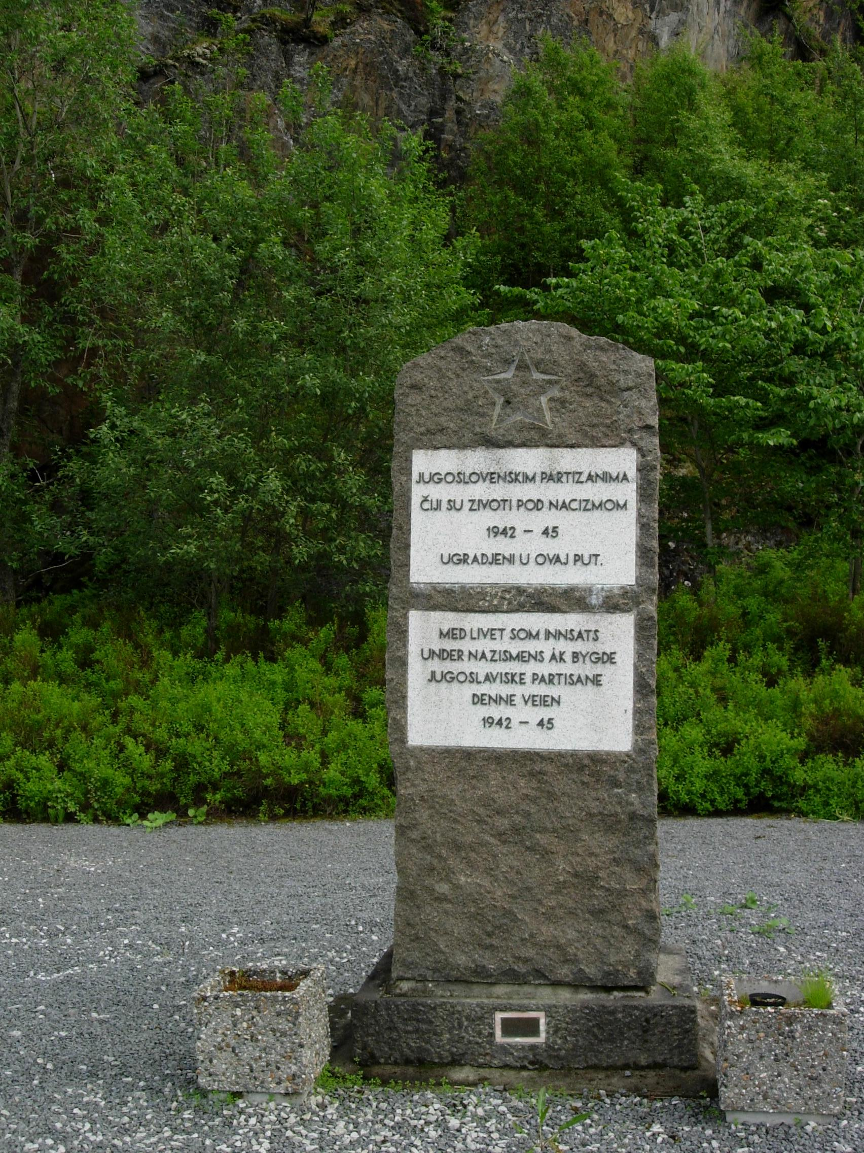 A war memorial over the lost war prisoners who were used as slave labour to build the Blood road. Mostly Soviet and Yugoslaw prisoners. Located at the Arctic Circle where E6 is passing by. Text on the memorial: This road was built by Yugoslav prisoners of war during the Nazi-regime 42-45, many lost their lives in the process...